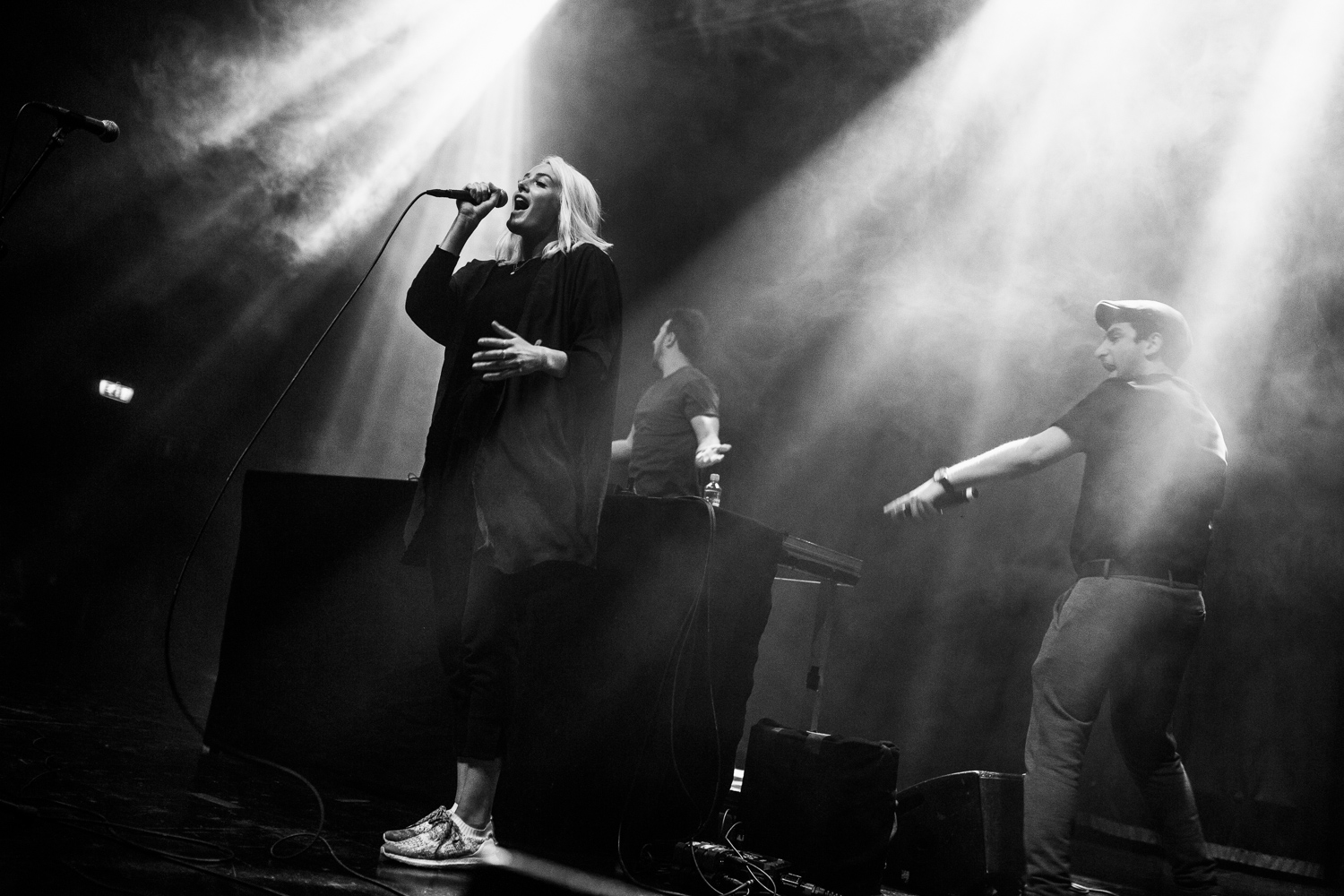 TRXD performing with Emilie Adams by:Larm 2017